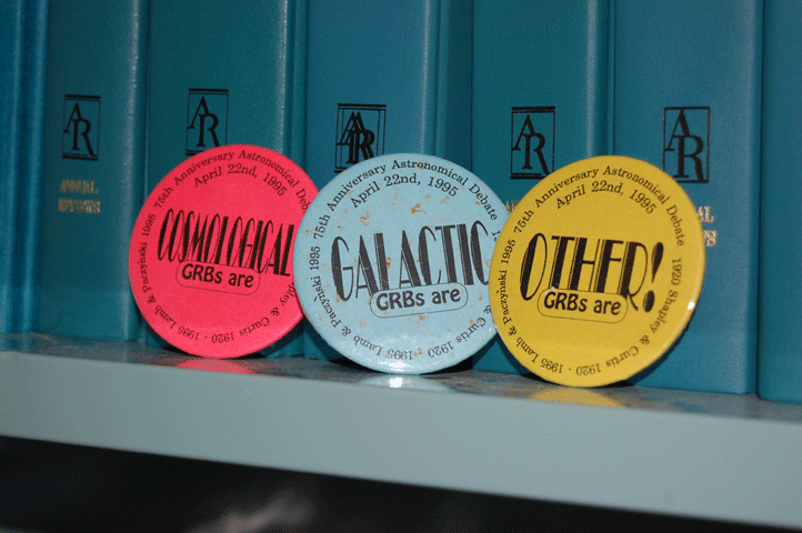 Buttons from Bohdan Paczynski 1995 debate about origins of the GRB (gamma ray bursts). These were found in plastic bag in his office in 2007 after he died. The debate was public and the audience voted after the debate and were asked to choose and wear a button.